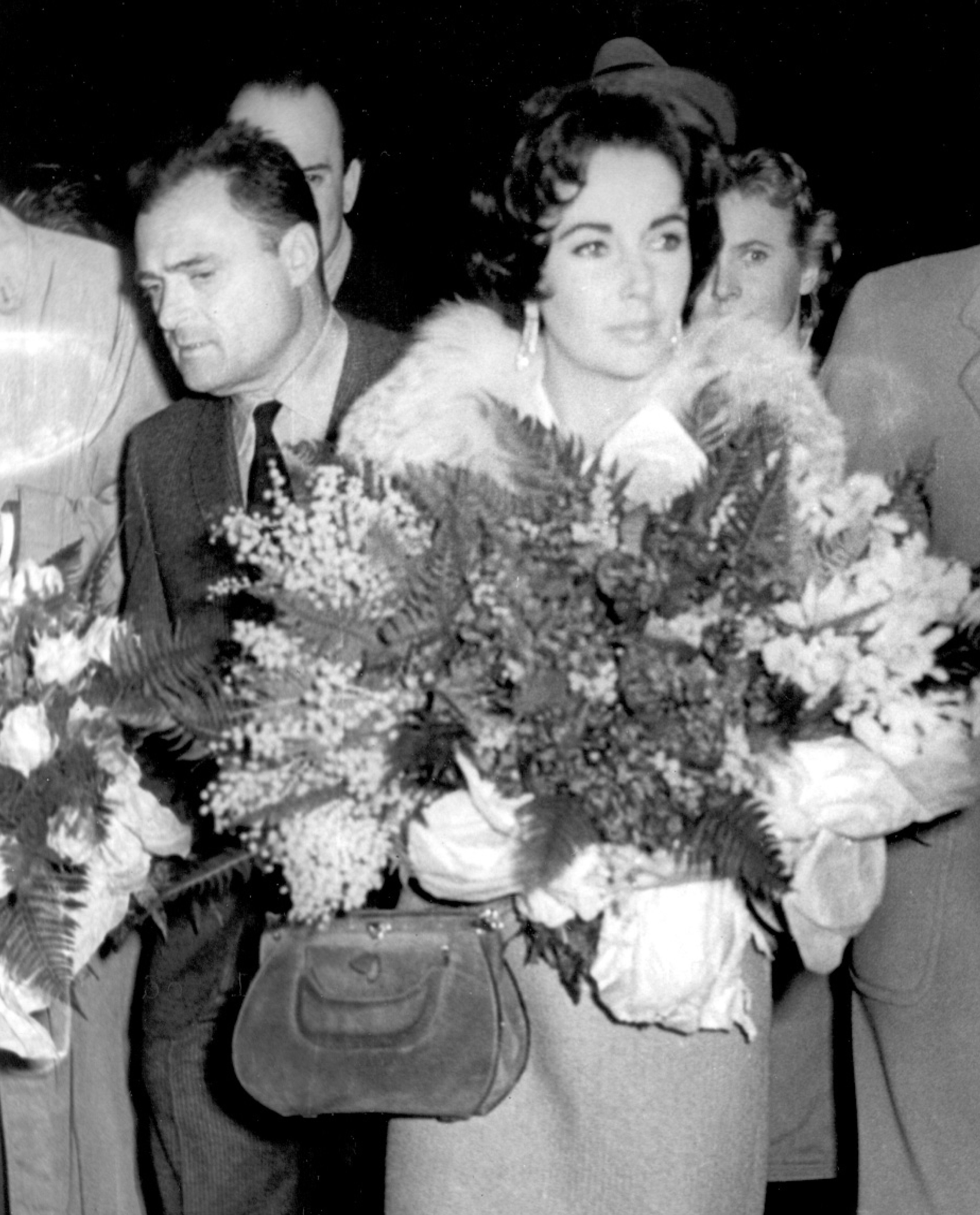 Elizabeth Taylor (1932–2011) and Mike Todd (1909–1958) in Belgrade